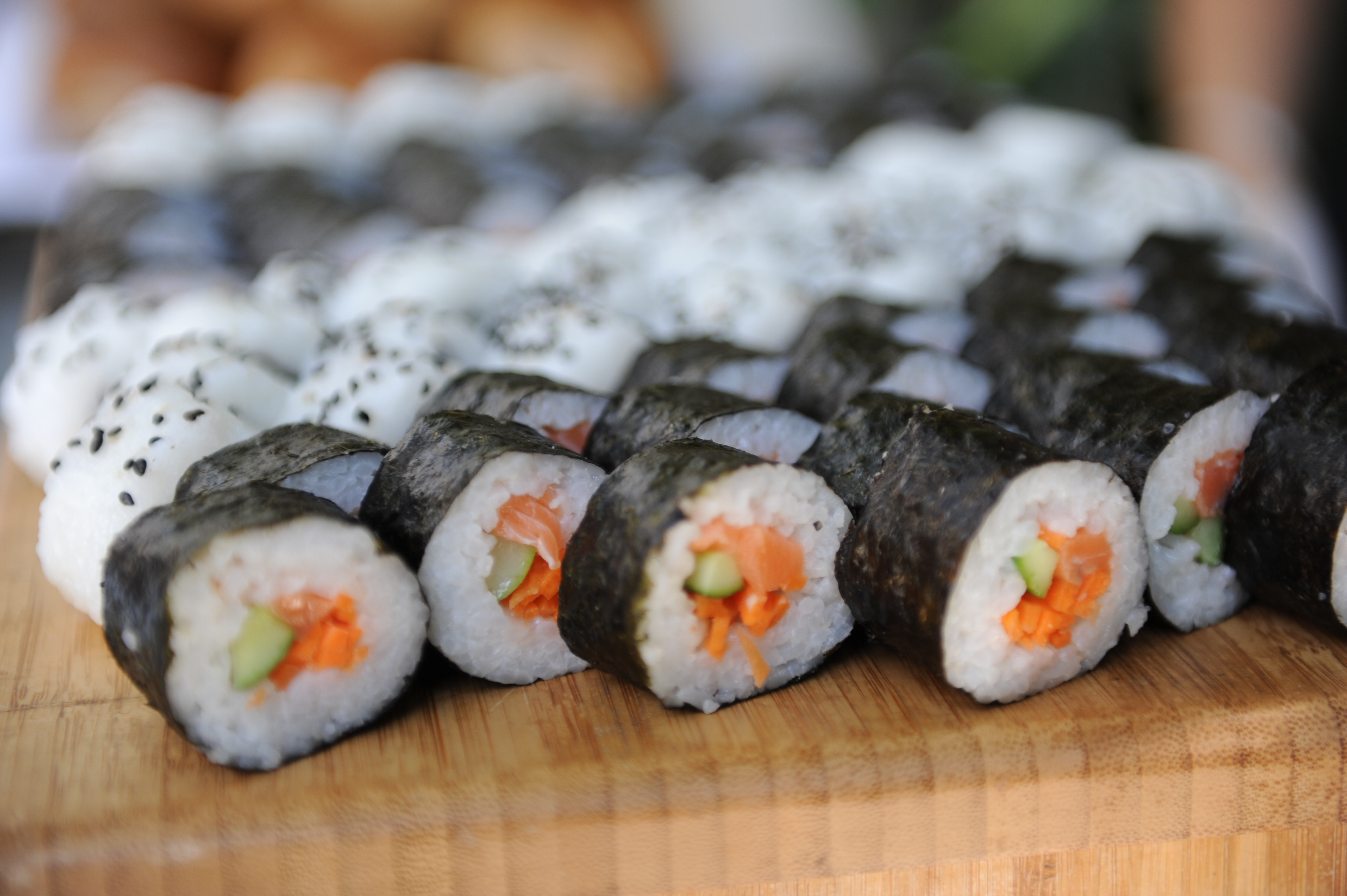 wikimania 2011 hackathon conference israel haifa hecht house